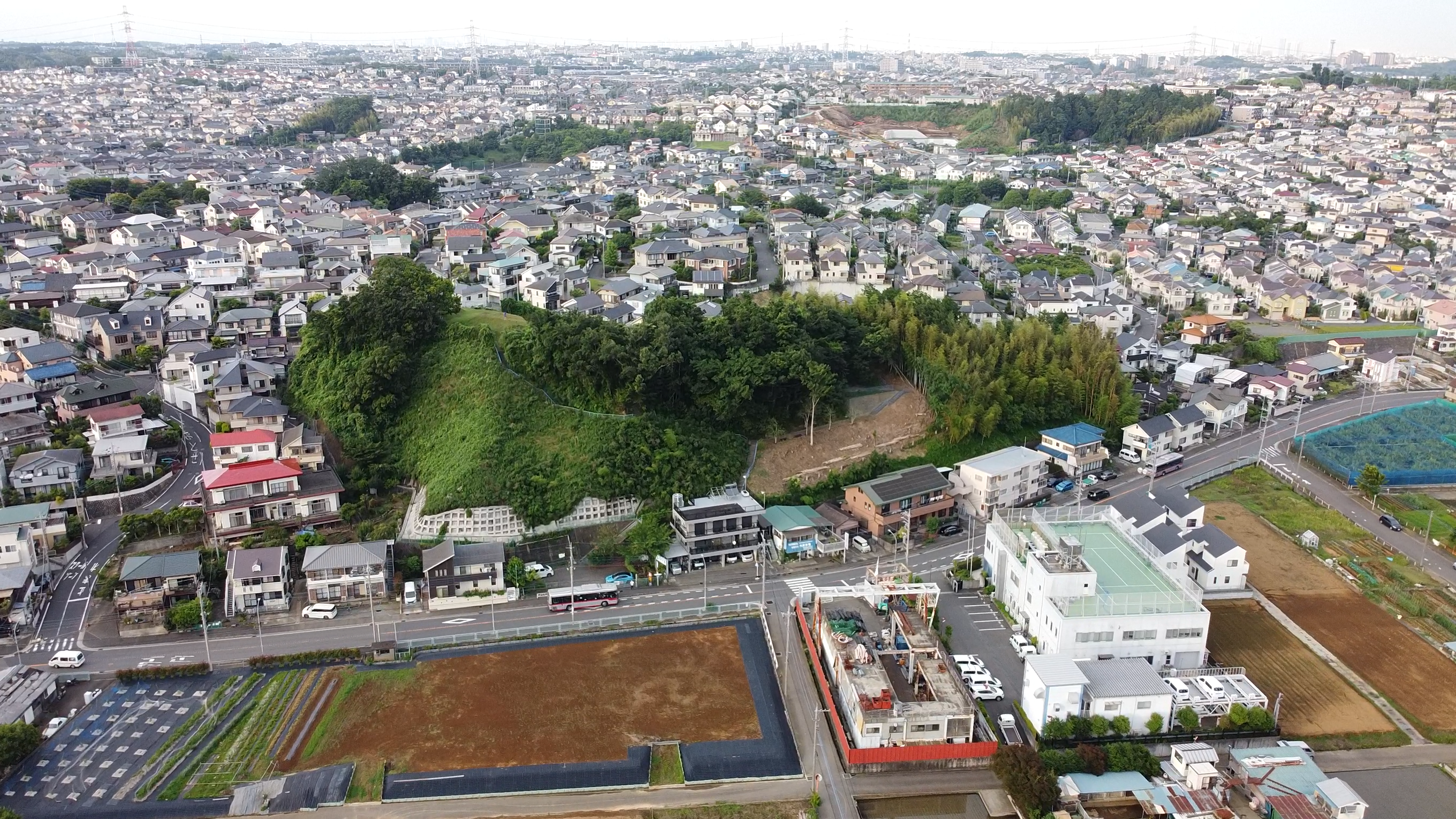 Inarimae Kofun Group in residential area